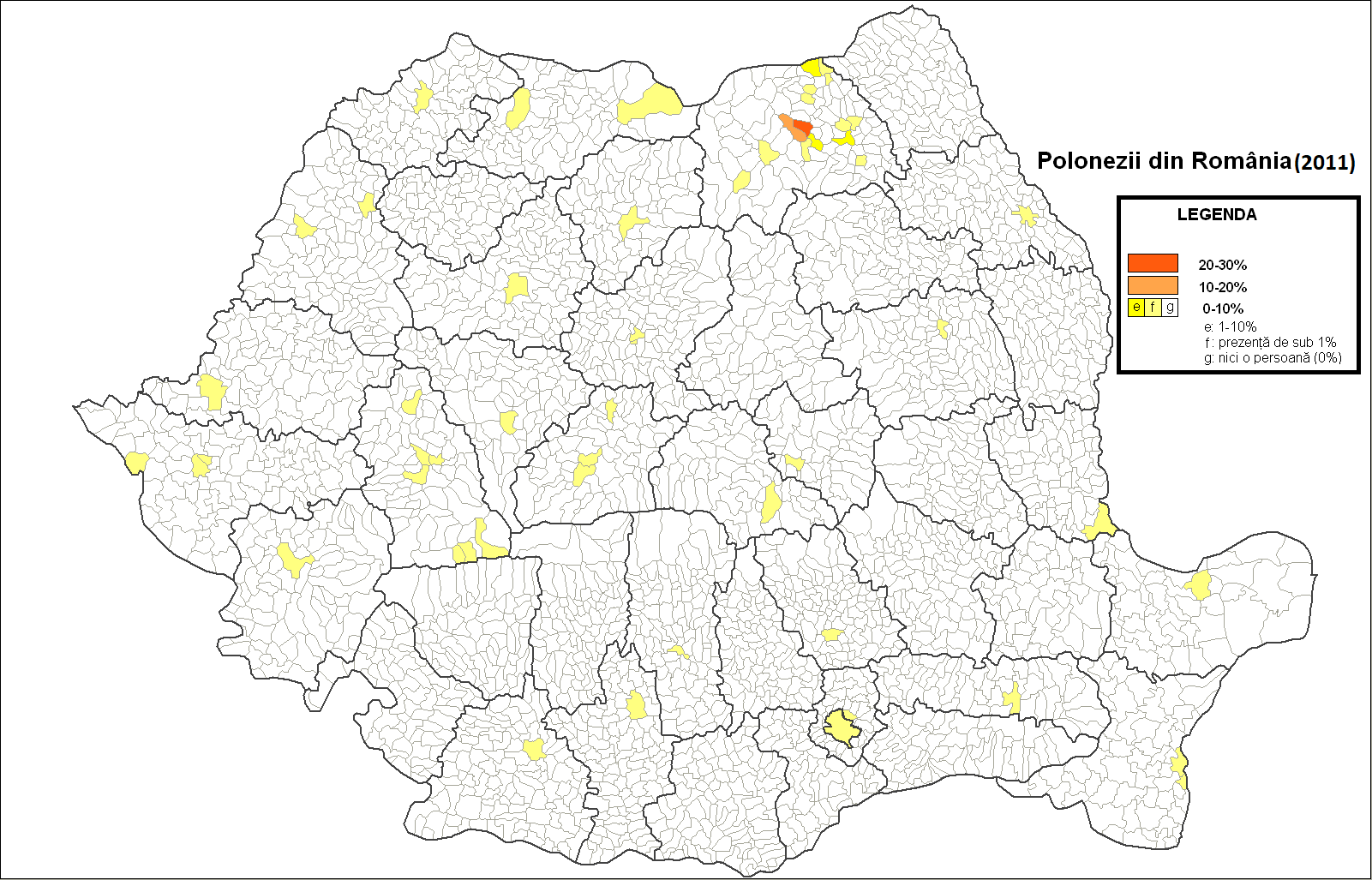 This is the map of the Romanian citizens of Polish ethnicity made off of the population census of 2011. It doesn't include the communes with less than 3 citizens of this ethnicity, due to its irrelevance. The image is made off of the 2002 census map.